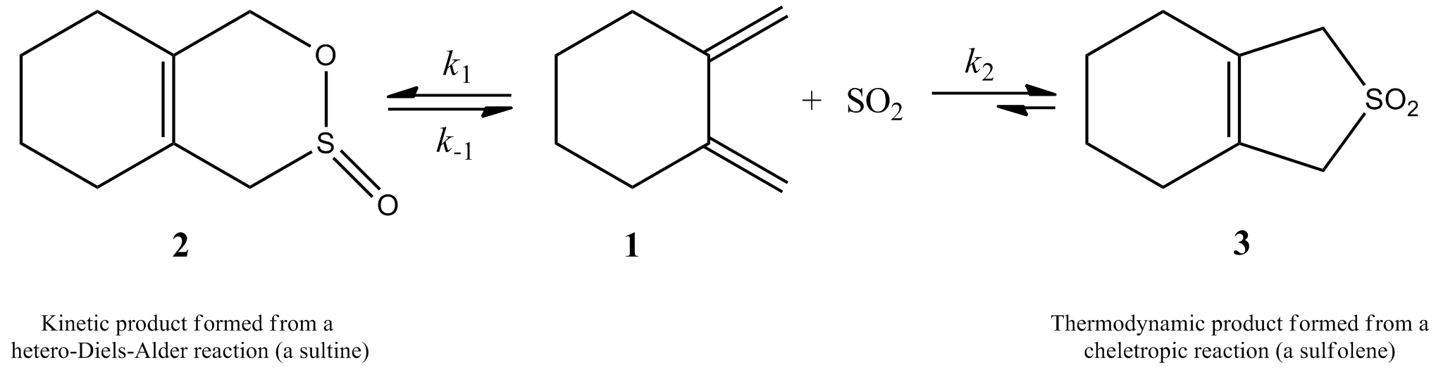 formation of sulfolene and sultine